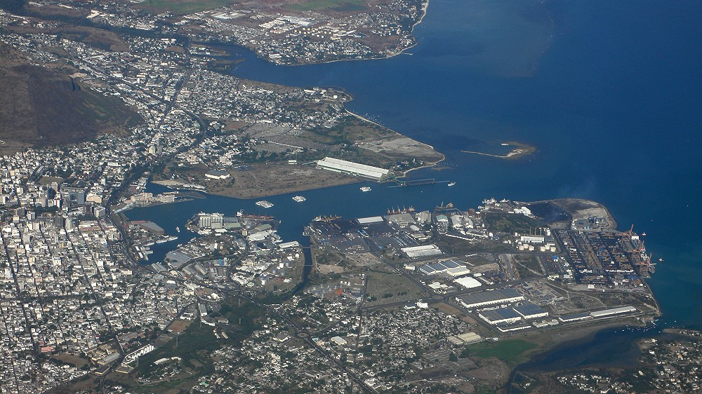 Aerial view of Port Louis harbour in Mauritius. Photographed by Christoph Niessen on August 25, 2006.